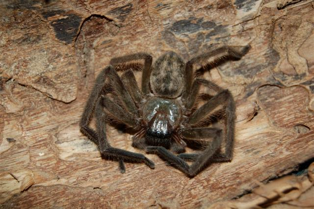 Female Delena cancerides, Huntsman Spider or Avondale Spider, native to Australia, naturalised in New Zealand